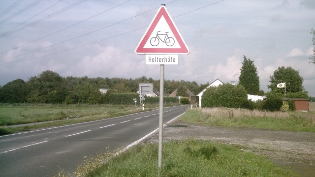 Holterhöfe, Willich, Germany. Das 2017 aus dem Verkehrszeichenkatalog entfernte Zeichen 313-50 mit der Bezeichnung „Ortsteiltafel einzeilig“.